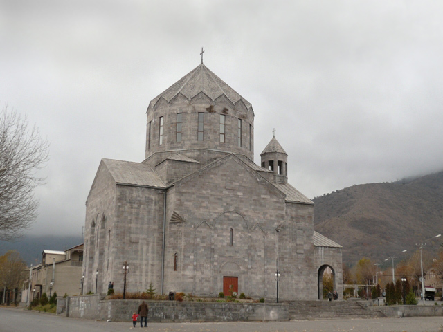 Saint Gregory of Narek church in Vanadzor.